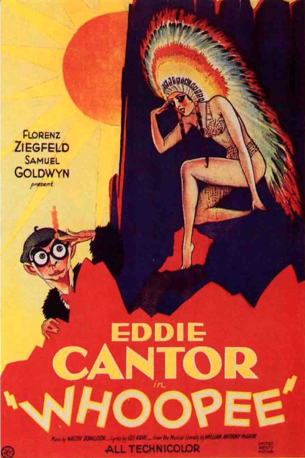 Poster for the 1930 film Whoopee!. The item has no copyright markings on it as can be seen in the links above. At bottom left is a logo for the Morgan Litho Company in Cleveland--they printed the poster-and "This paper leased to the distributor by United Artists Corporation." Another poster for the film is at Commons File:Whoopee poster.jpg with the Morgan logo and leasing information printed on its right side.